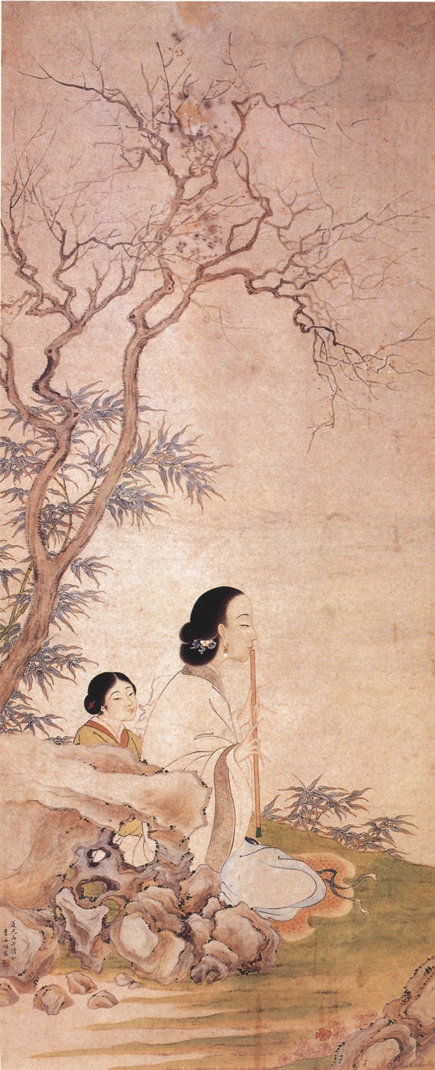 Playing Flute under the Moon, Fei Danxu, Qing Dynasty, China, Art School of Tsinghua University